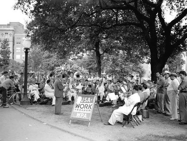 New Orleans, 1940. "Noon-day concert held by the WPA band at Lafayette Square. Exterior." Federal Music Project.